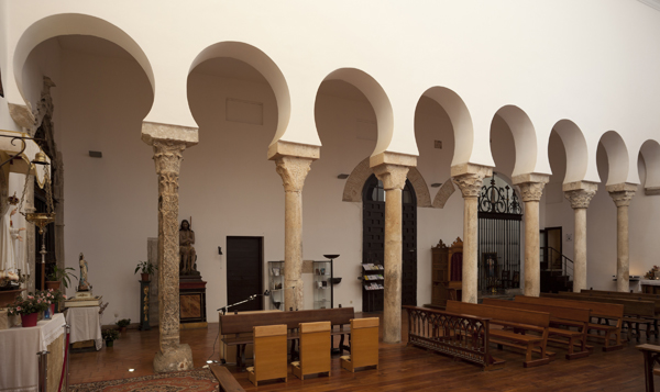 Iglesia del Salvador; Toledo, Castilla la Mancha, Toledo, Spain; ; ref: PM_079709_E_Toledo; Iglesia del Salvador; Photographer: Paul M.R. Maeyaert; © Paul M.R. Maeyaert; ; Cultural heritage; Europeana; Europe/Spain/Toledo